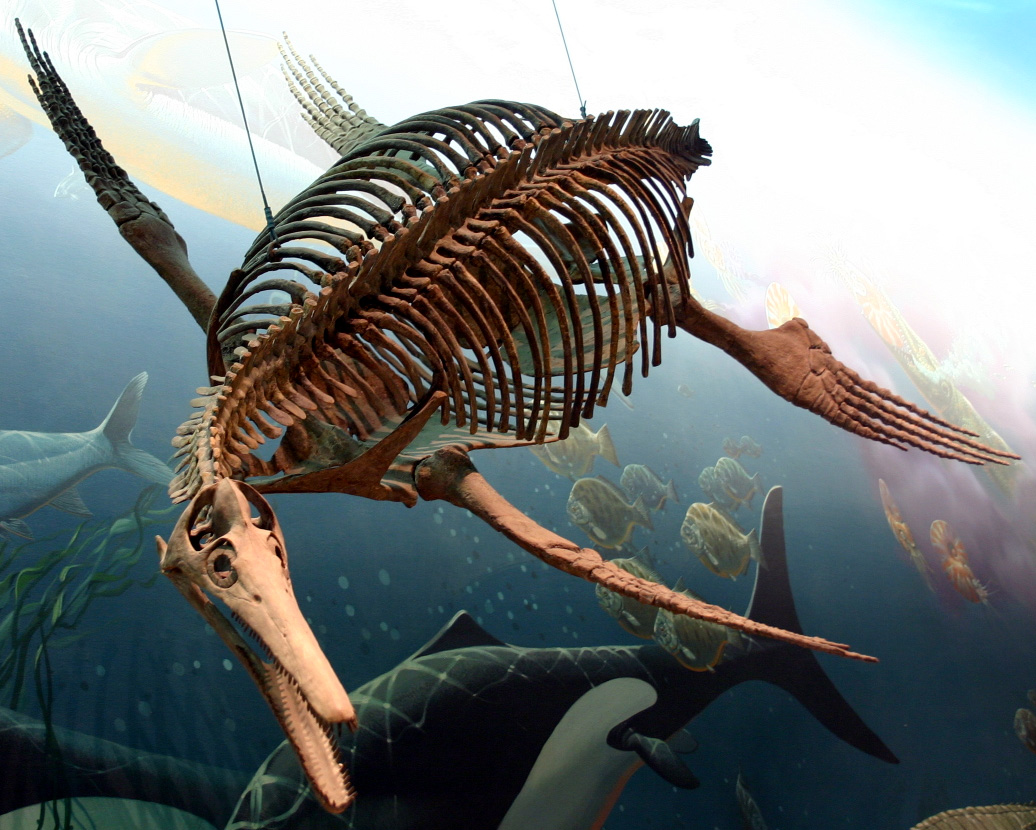 Dolichorhynchops osborni, National Museum of Natural History, Washington D. C.